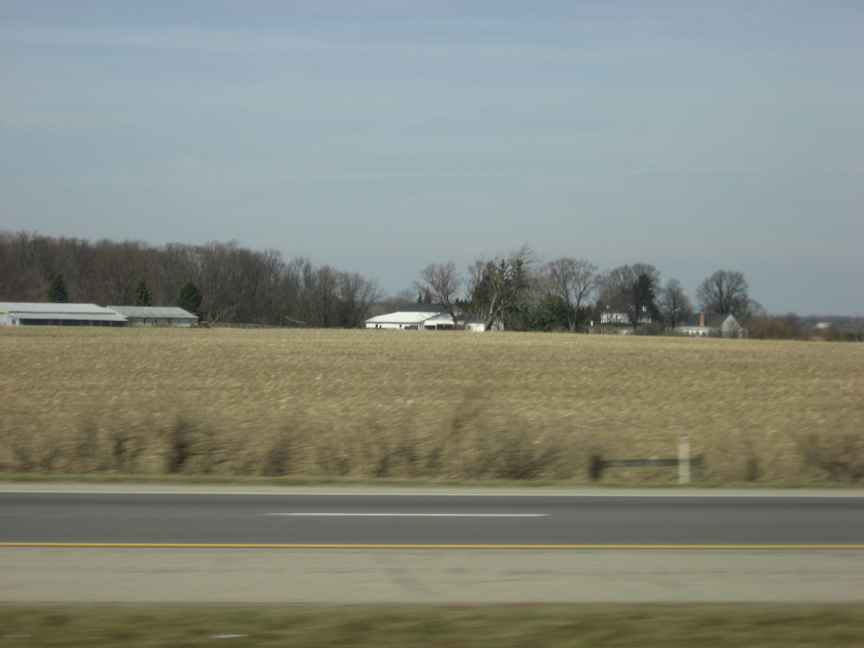 Countryside in far western Harmony Township, Clark County, Ohio, United States. Picture was taken looking to the northwest from the eastbound lanes of Interstate 70, just west of the Plattsburg Road overpass.